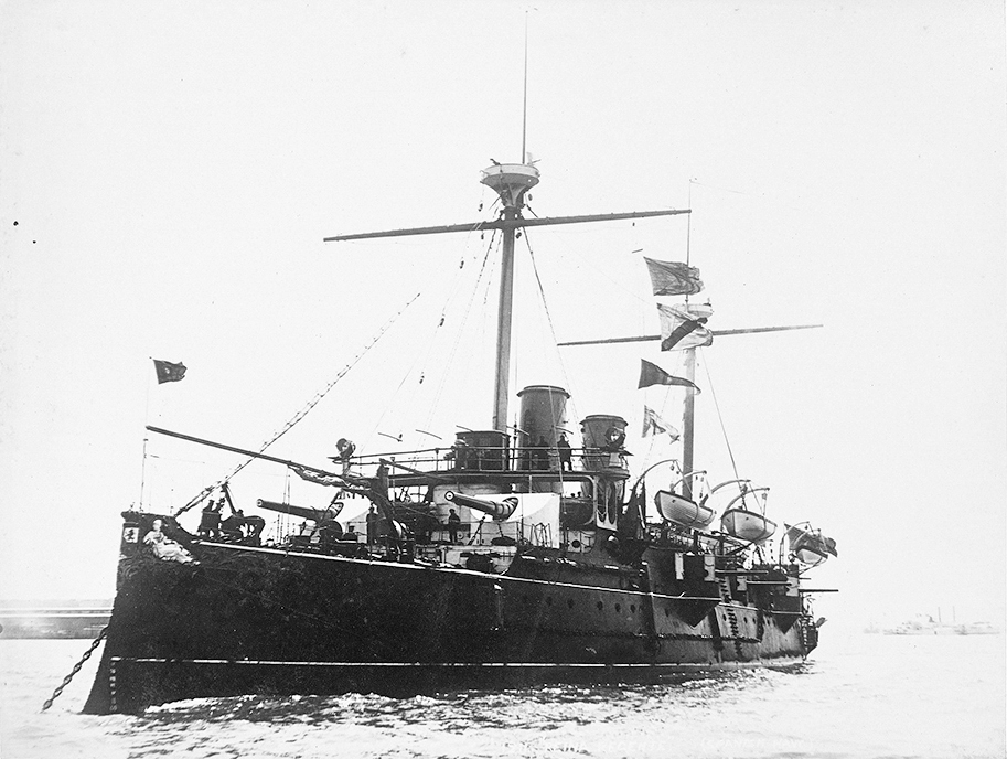 Title: 'Reina Regente.' (Spanish Navy) Creator: Unknown Date: April 27, 189 Part Of: Columbian Naval Parade Place: New York Physical Description: 1 photographic print: albumen, part of 1 volume (48 albumen prints); 17 x 22 cm on 28 x 34 cm mount File: ag1982_0031_40_opt.jpg Rights: Please cite DeGolyer Library, Southern Methodist University when using this file. A high-resolution version of this file may be obtained for a fee. For details see the web page. For other information, . For more information, View the full series: naval parade/field/all/mode/all/conn/and/cosuppress/ View North America: Photographs, Manuscripts, and Imprints